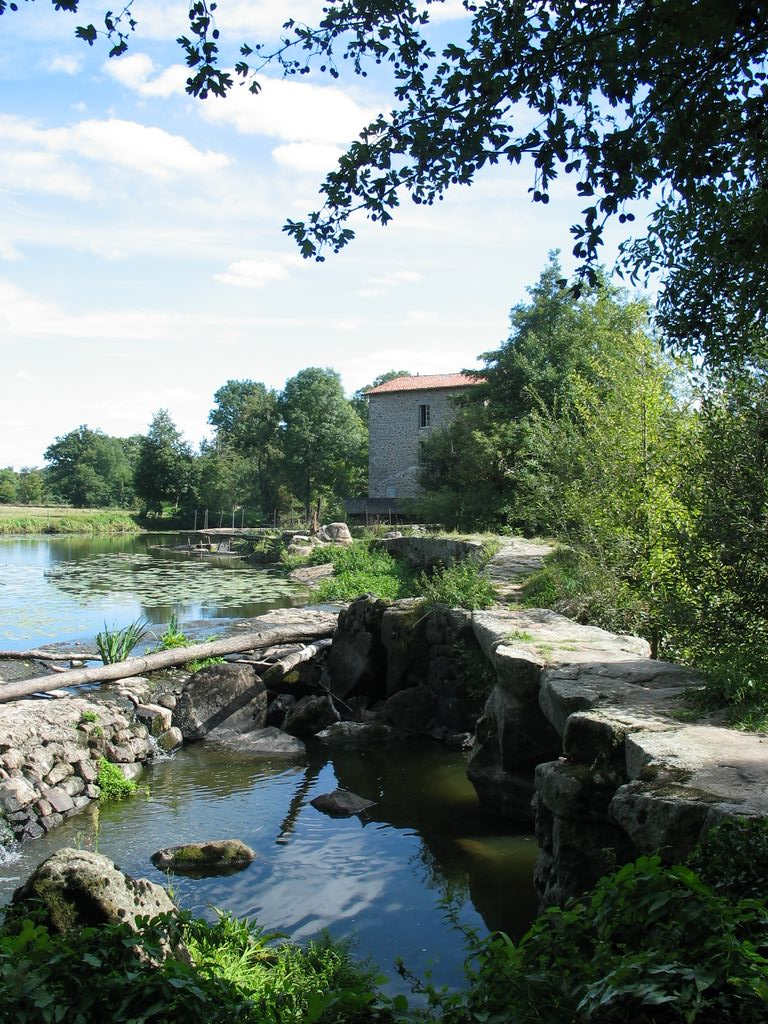 Sèvre Nantaise, near Le Longeron, west of France